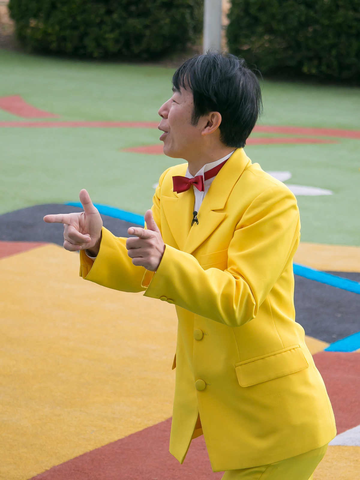 Dandy Sakano in Kyoto Racecourse.